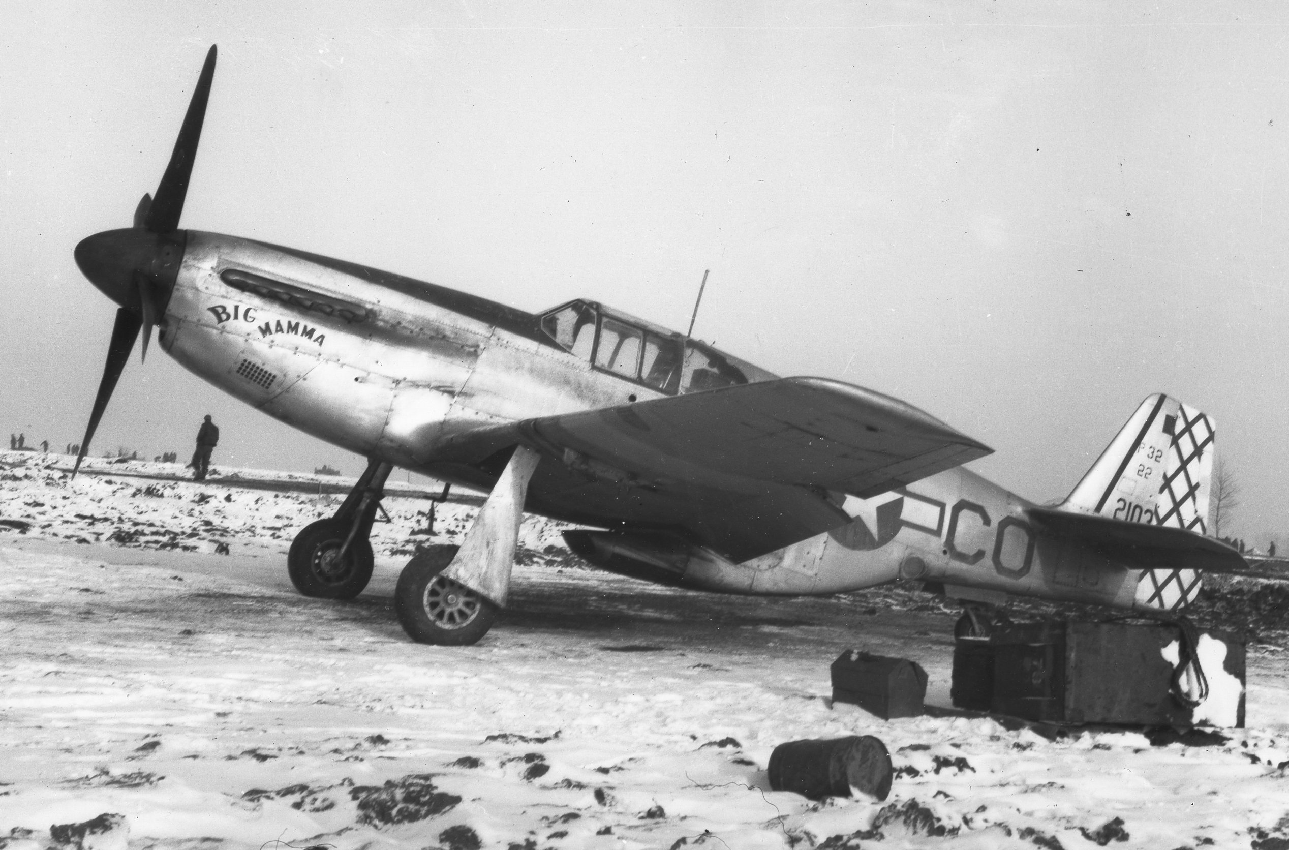 A USAAF North American F-6C Mustang fighter (s/n 42-103??) from the 111th Tactical Reconnaissance Squadron in World War II.